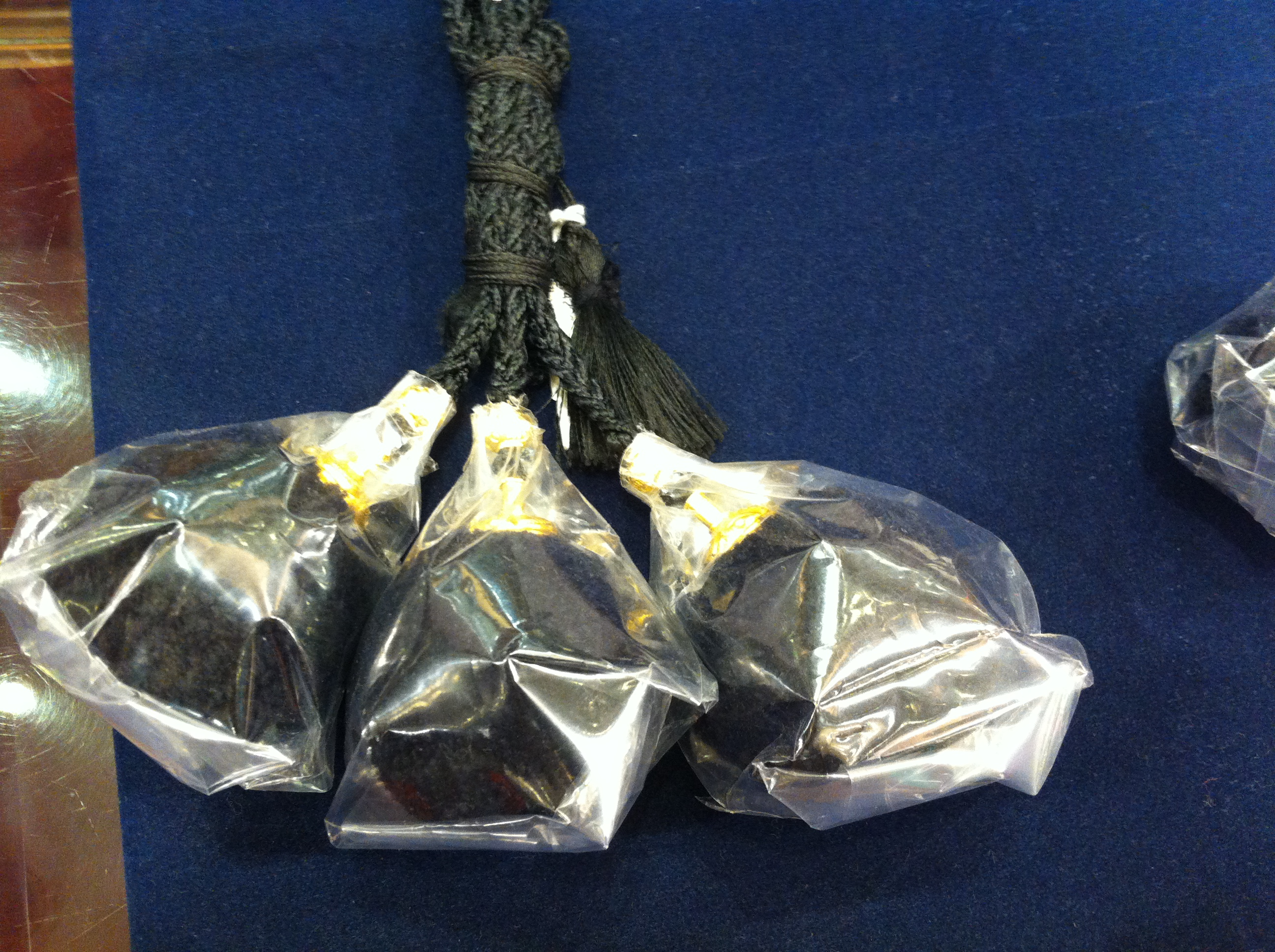 Jewellery of Tamil Nadu